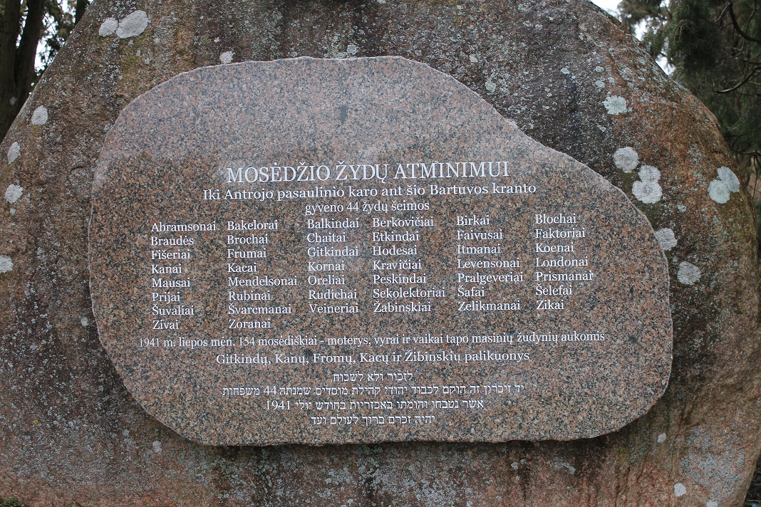 Mosėdis monument to the Jewish community, Skuodas district, LithuaniaLietuvių: Mosėdžio paminklas žydų bendruomenei, Skuodo rajonas, Lietuva